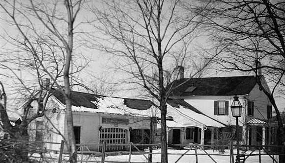 Travelers' & Drovers' Tavern, Cherry Valley Turnpike, Oran (Onondaga County, New York) cropped